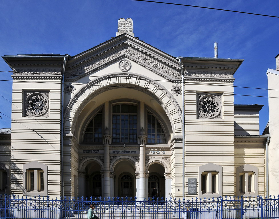 The Choral Synagogue of Vilnius , built in 1903, is the only active synagogue remaining in this city that once boasted over 100. Few Jewish houses of worship survived World War II and its aftermath. After the war, the Choral Synagogue was converted into a metal-workers shop and the vibrations from the machines have caused structural damage. Bron: De synagoge staat helaas voor fotografen in een smalle straat. Je moet letterlijk met de rug tegen de muur.